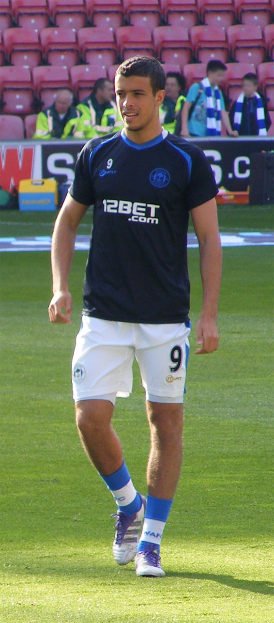 Franco DiSanto of Wigan Athletic